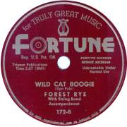 Wild Cat Boogie by Forest Rye, Fortune Records 1953.